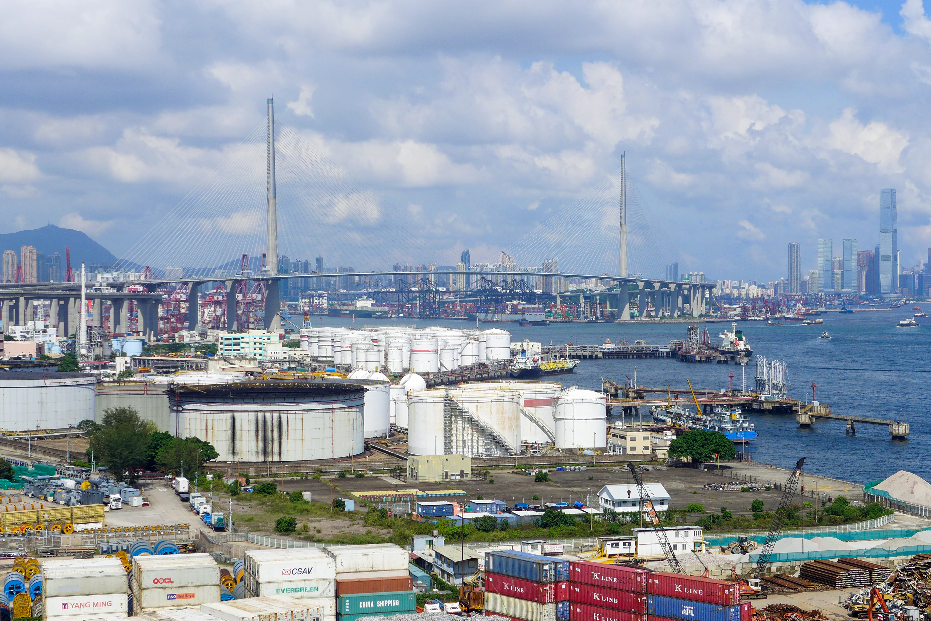 Stonecutters Bridge